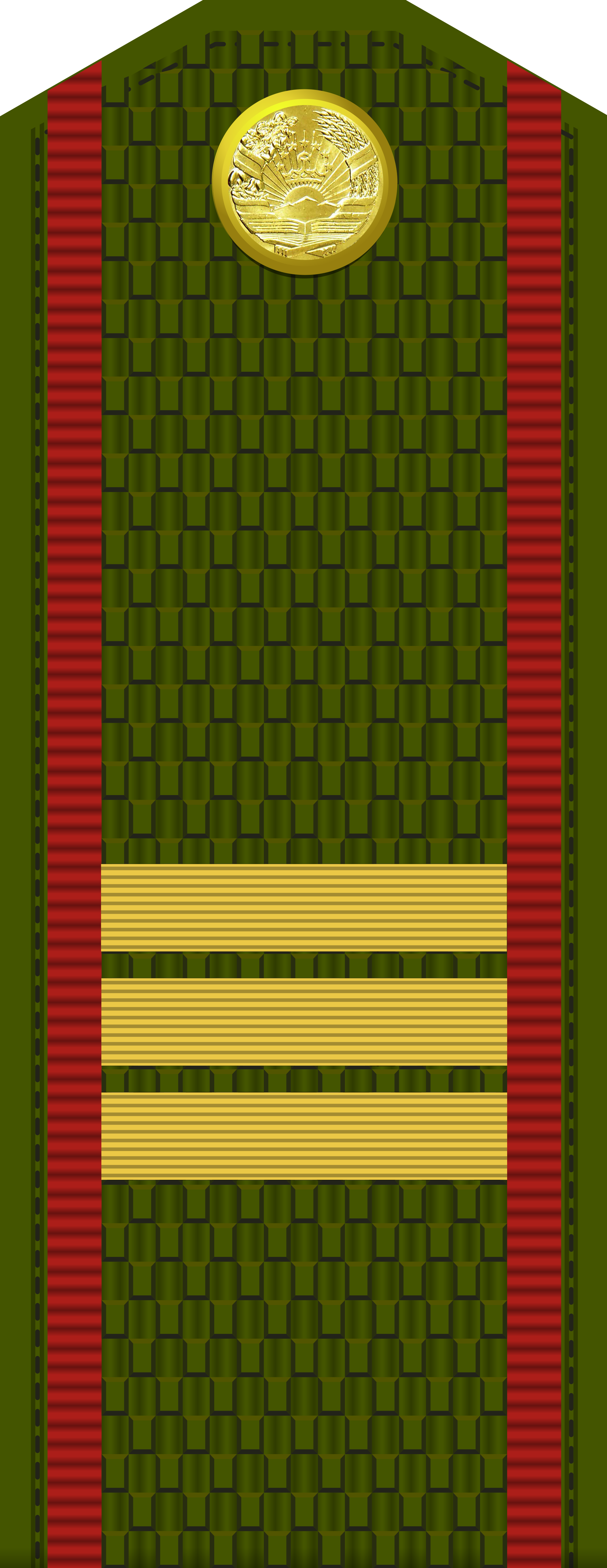 Тоҷикӣ: Rank insignia of Sergeant for the Tajikistan Army